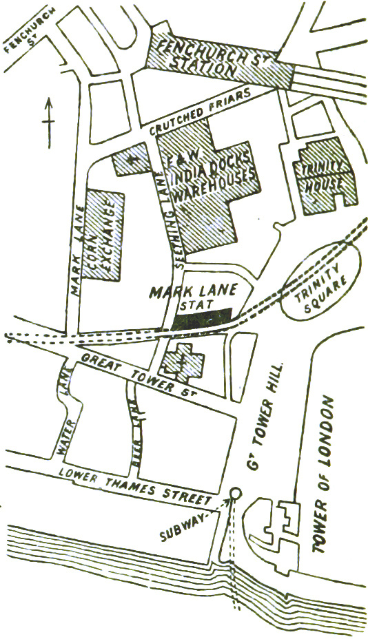 1888 plan of the area around Mark Lane underground station in the City of London.